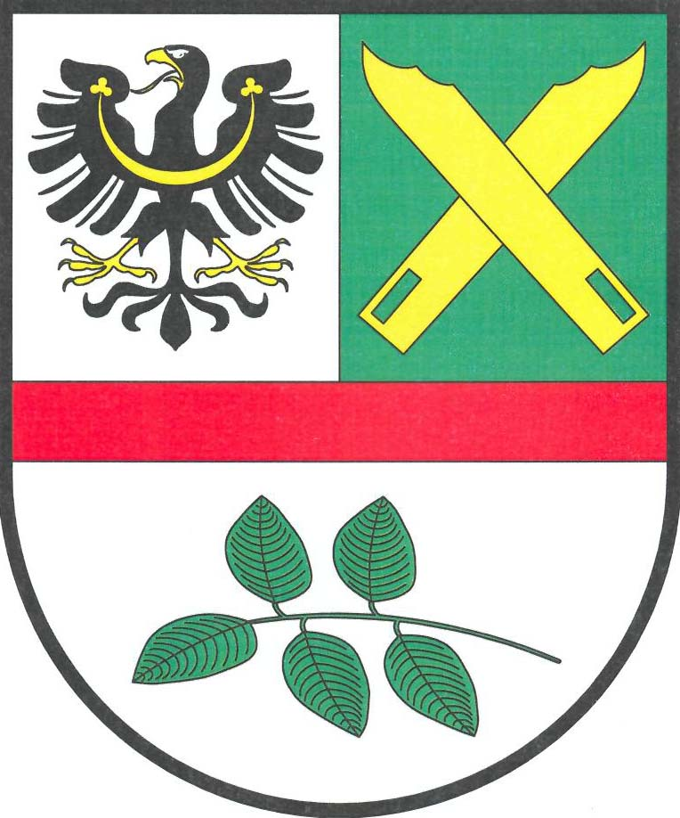 Coats_of_Arms_of_Vysoký_Chlumec, Příbram Distinct, Czech republic